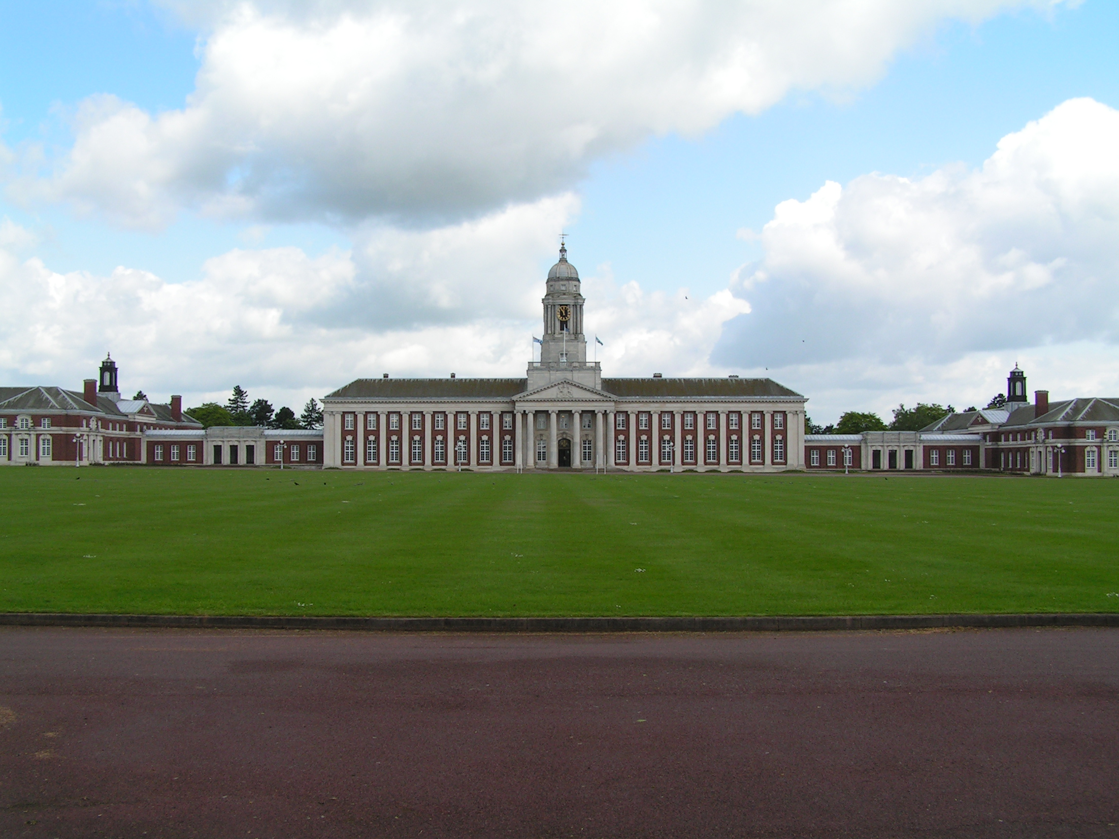 Photograph of the College Hall, the Royal Air Force College's Officer Mess.